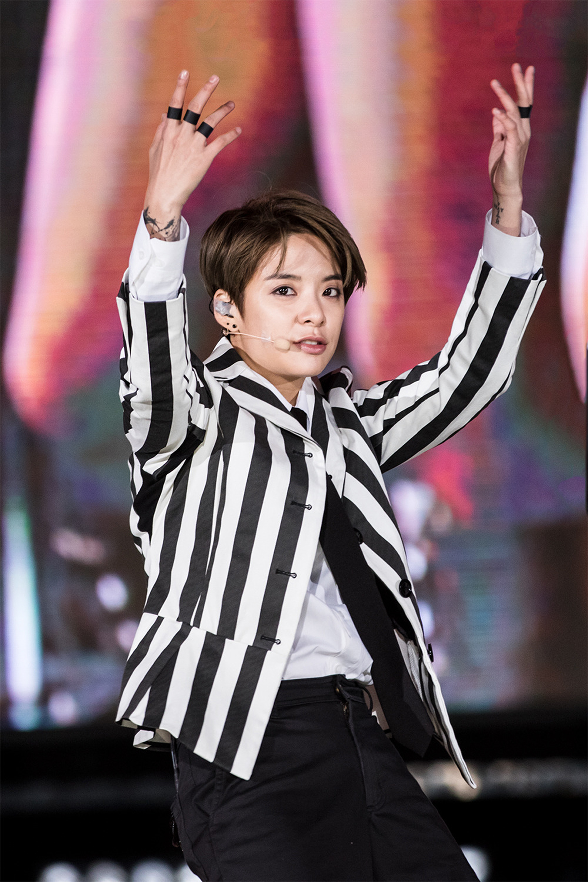 Amber Liu at Jeju K-Pop Festival on 25 October 2015.